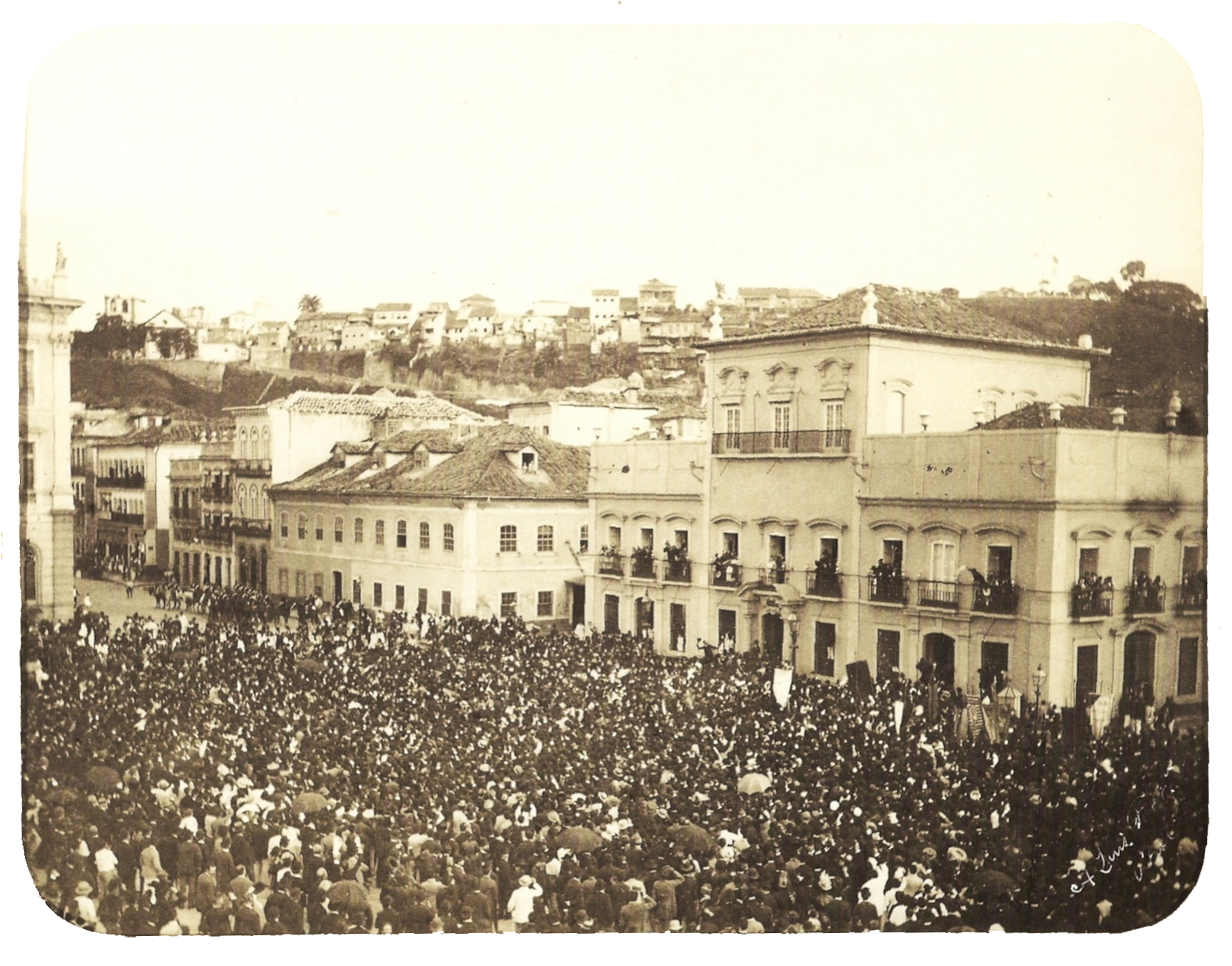 Isabel, Princess Imperial of Brazil is cheered from the central balcony by a huge crowd below in the streets, moments after having signed the Golden Law.